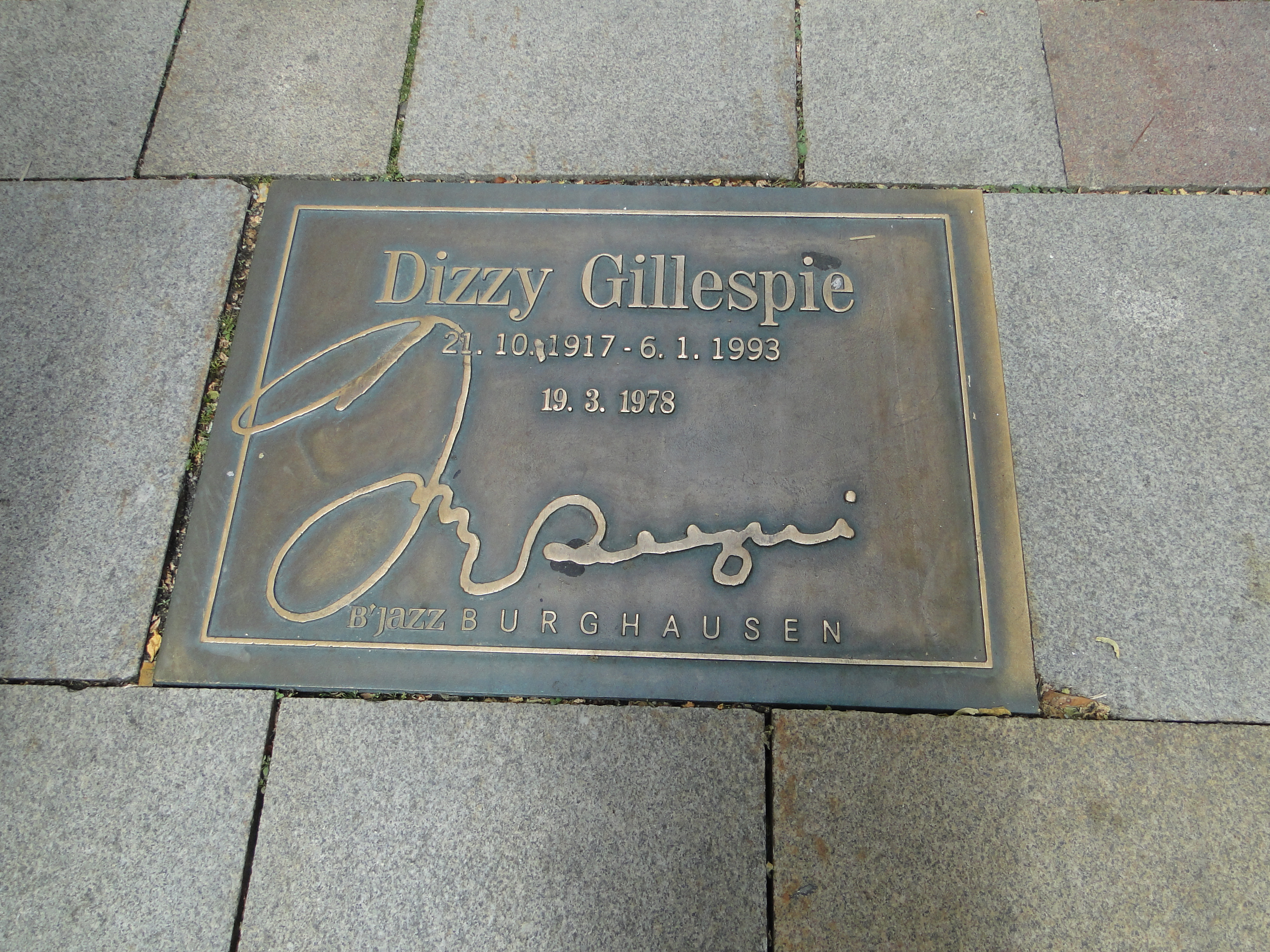 Plate of Dizzy Gillespie on the Walk of Fame in Burghausen (Germany)